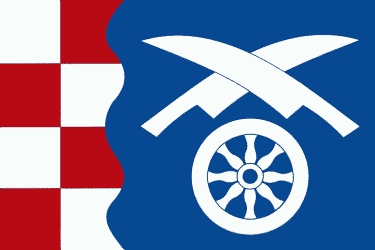 Municipal flag of Malá Morava village, Šumperk District, Czech Republic.